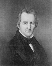 Portrait of Benjamin Tappan.